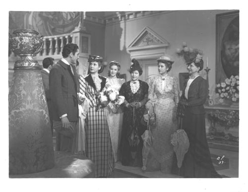 Cuando la primavera se equivoca. Argentine film from 1944